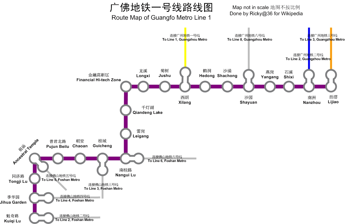 Route Map of Guangfo Metro Line 1